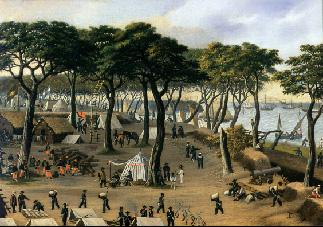 It's Curuzu, not Guiuzu. Sept. 20 1866.